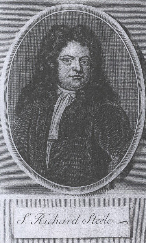 picture of 18th century english Tatler journalist Richard Steele